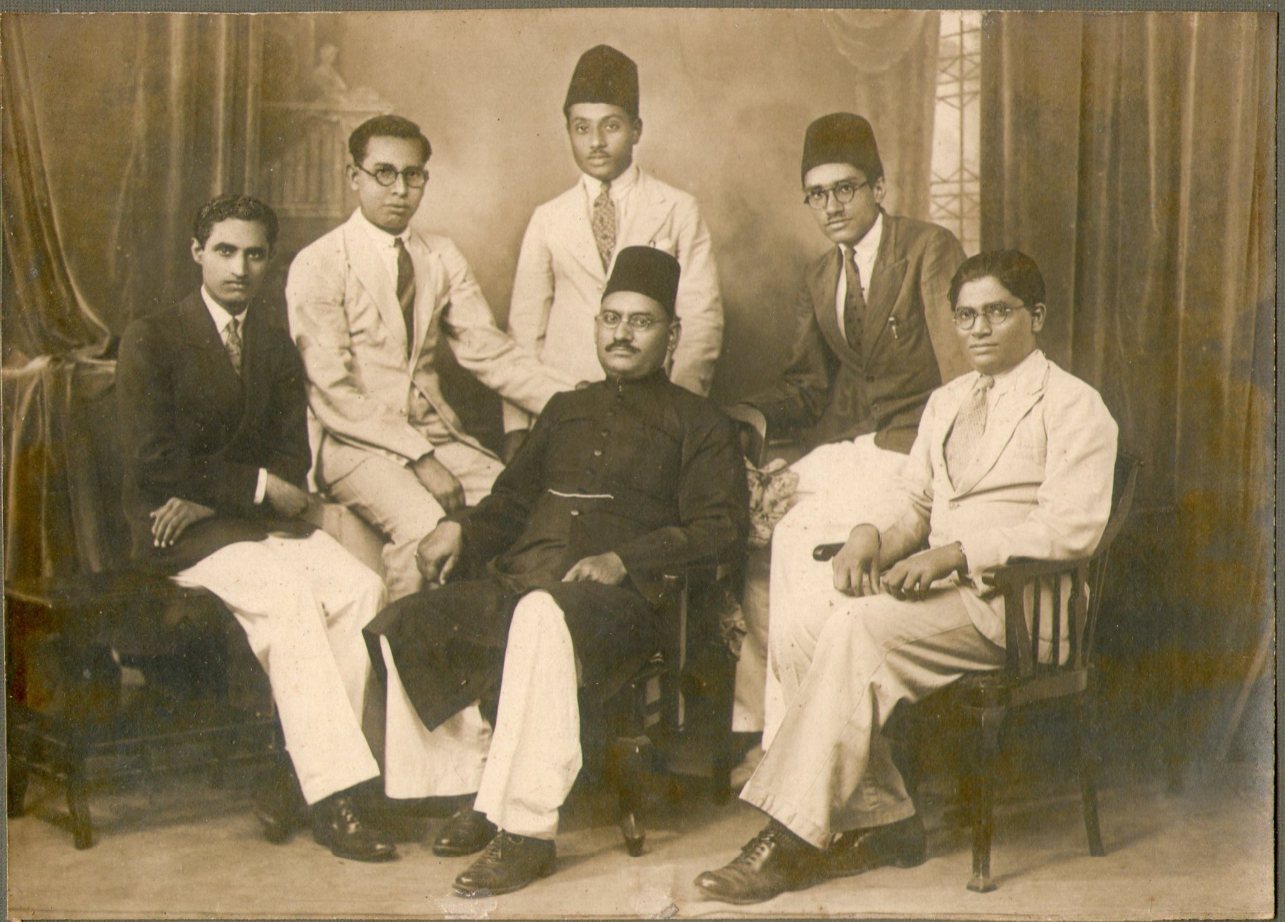 PROF. S. M. SAEED RAZA WITH STUDENTS